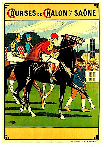 Courses Chalon-sur-Saône, lithographic poster printed by J. Minot (Paris), before letter.